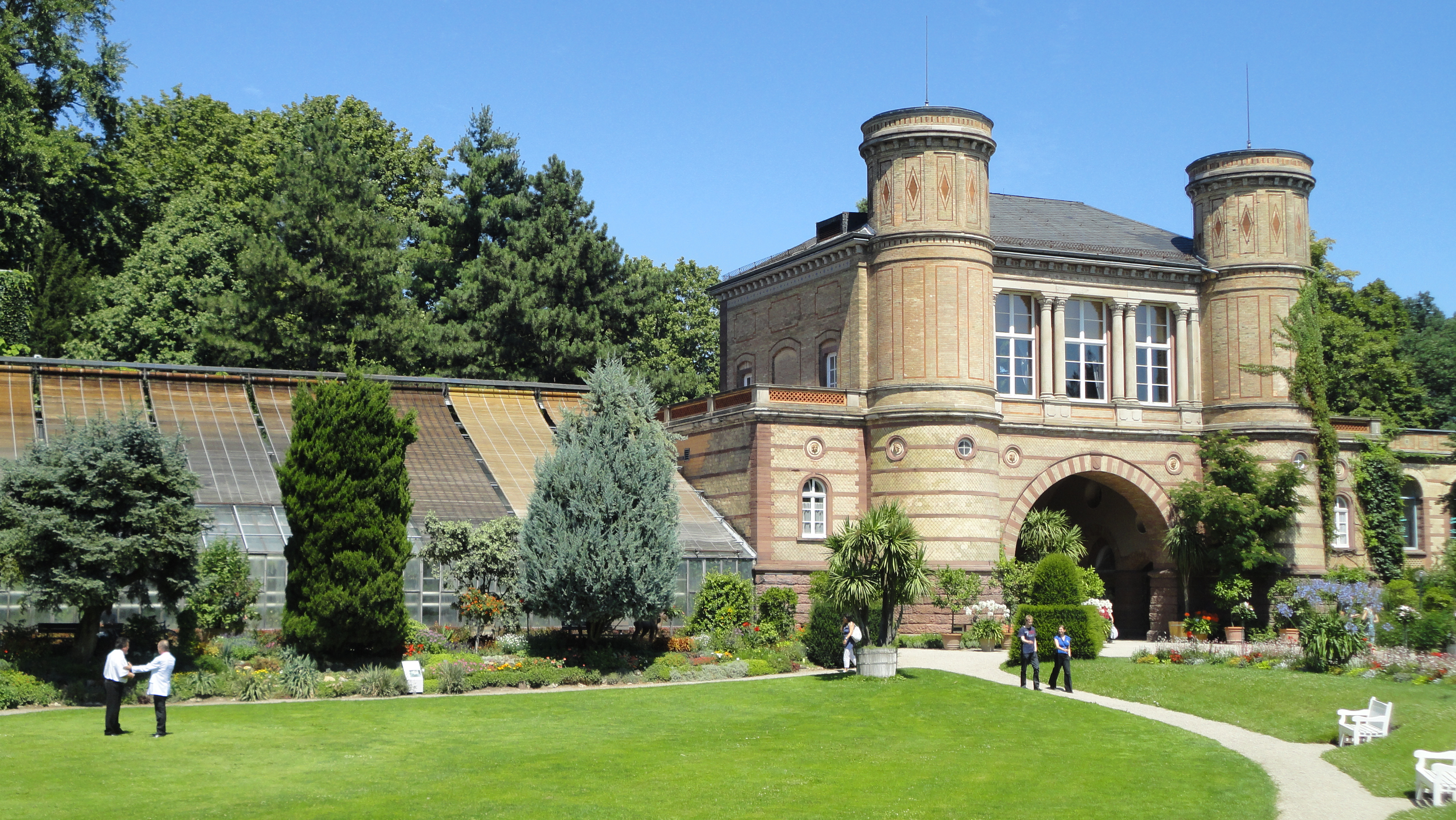 The gatehouse at the botanical garden of Karlsruhe shot from the inside of the gardenHrvatski: Zgrada glavnog ulaza u botanički vrt grada Karlsruhe snimljena sa unutarnje strane vrta